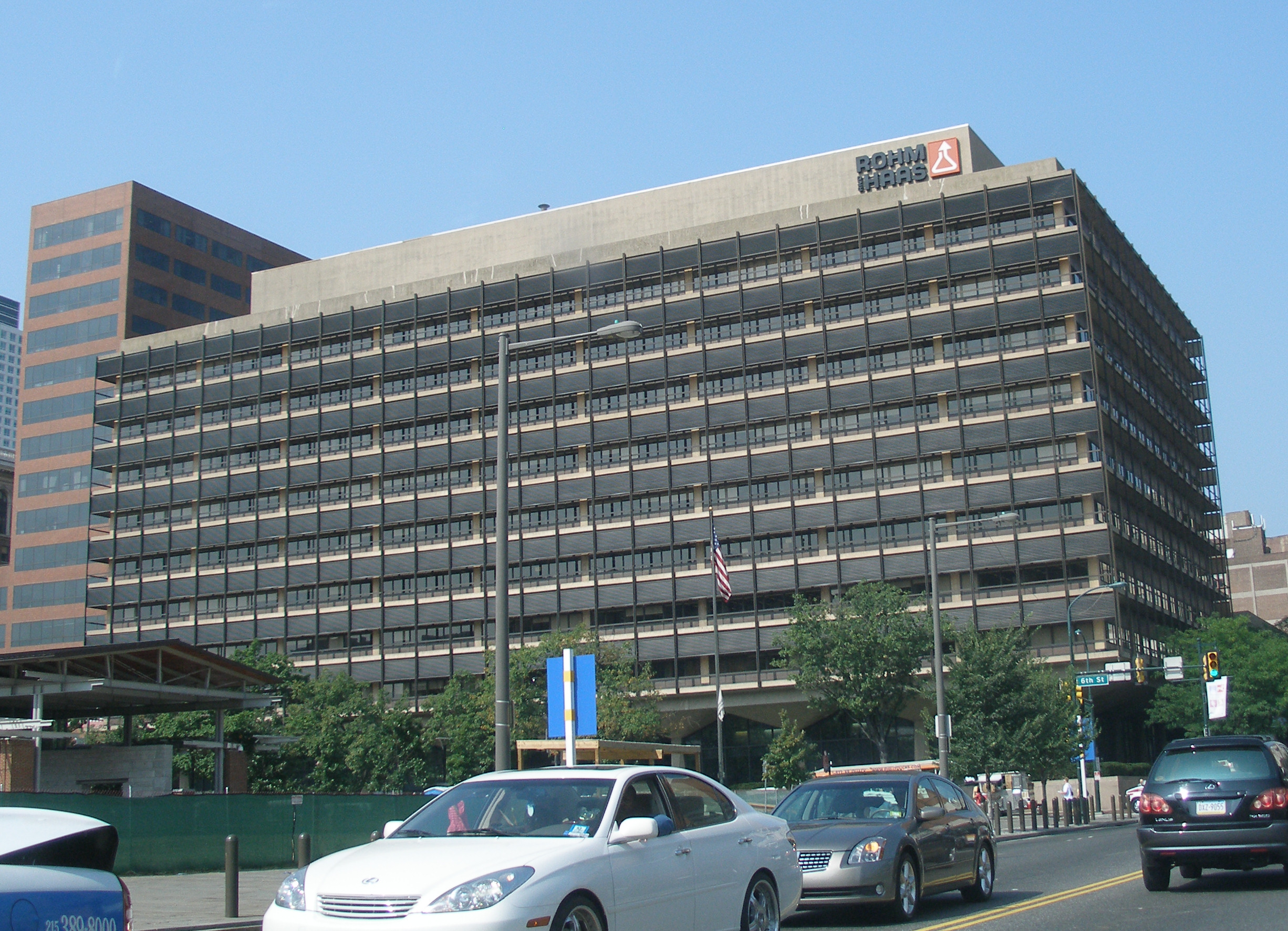 The headquarters of Rohm and Haas in Philadelphia, Pennsylvania. Architect, Pietro Belluschi. Photographed by user Coolcaesar on September 1, en:2007.